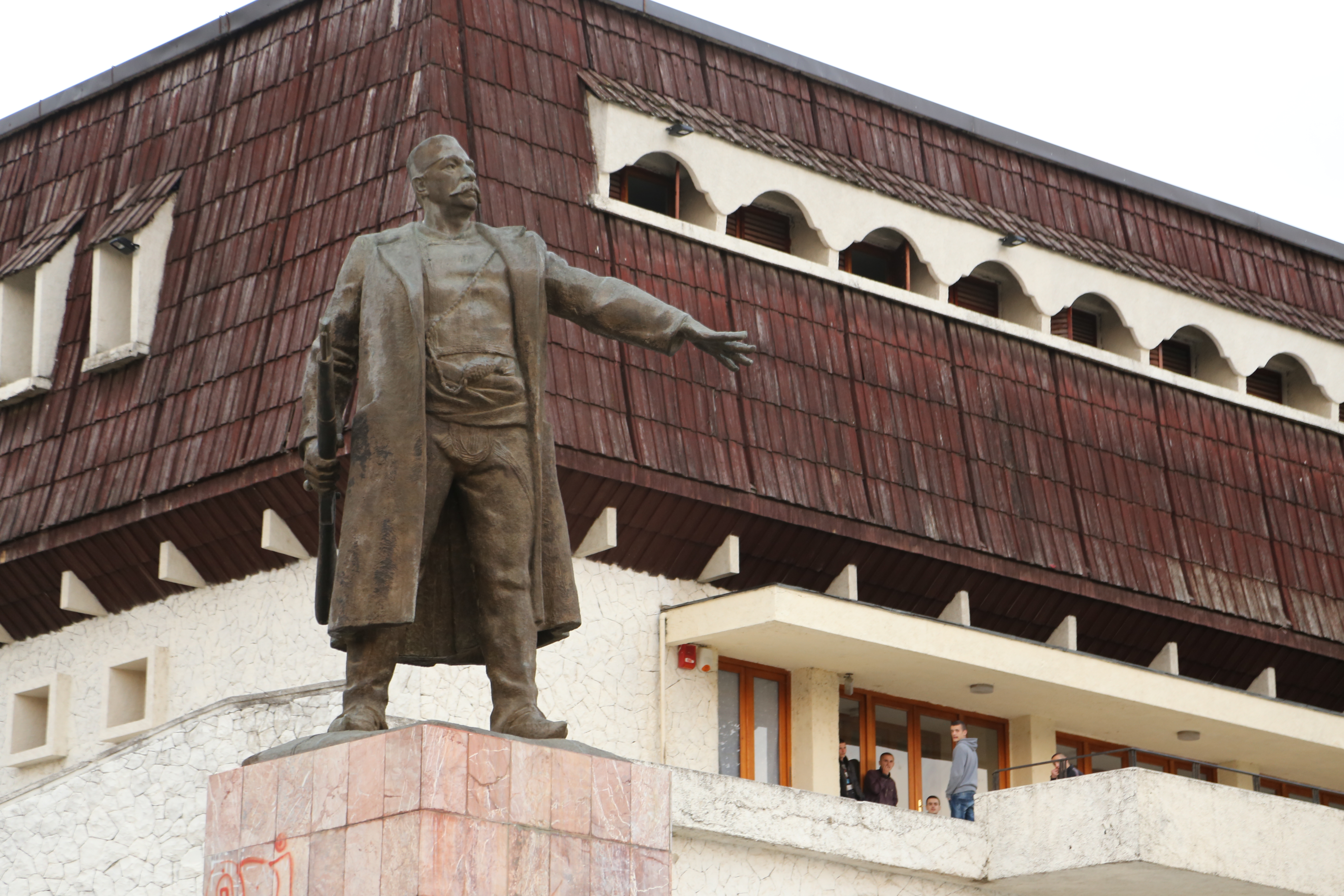 Town of Bajram Curri in Albania Bajram Curri Memorial